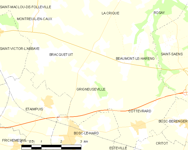 Map of French municipality Grigneuseville